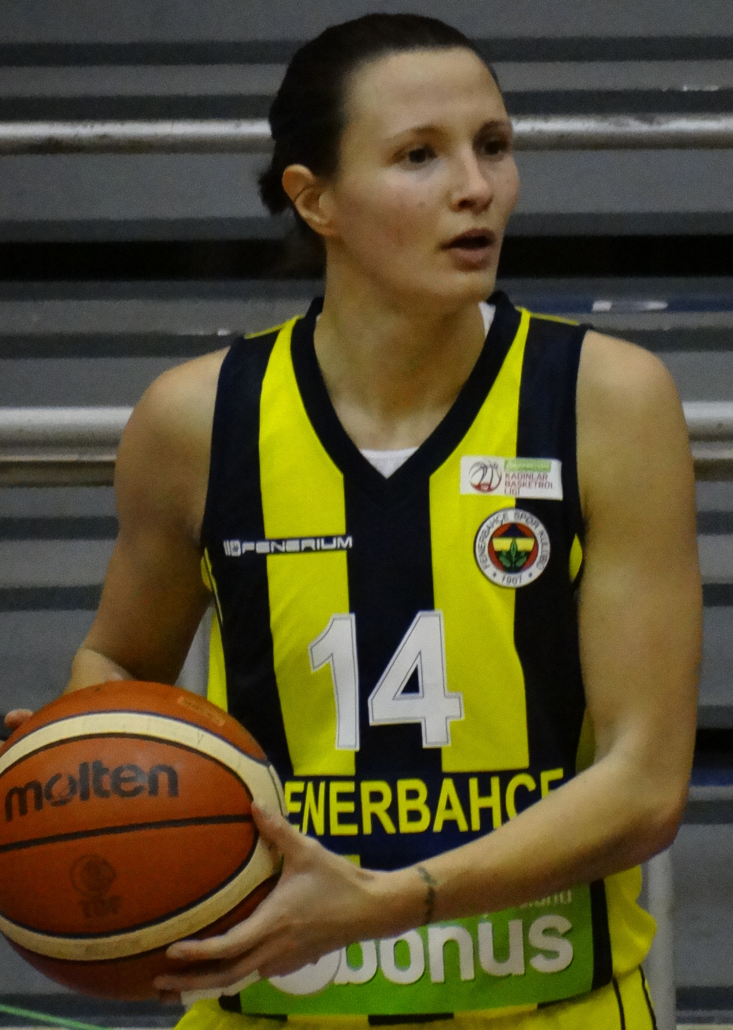 Birsel Vardarlı Fenerbahçe Women's Basketball vs Mersin Büyükşehir Belediyesi (women's basketball) TWBL 20180121